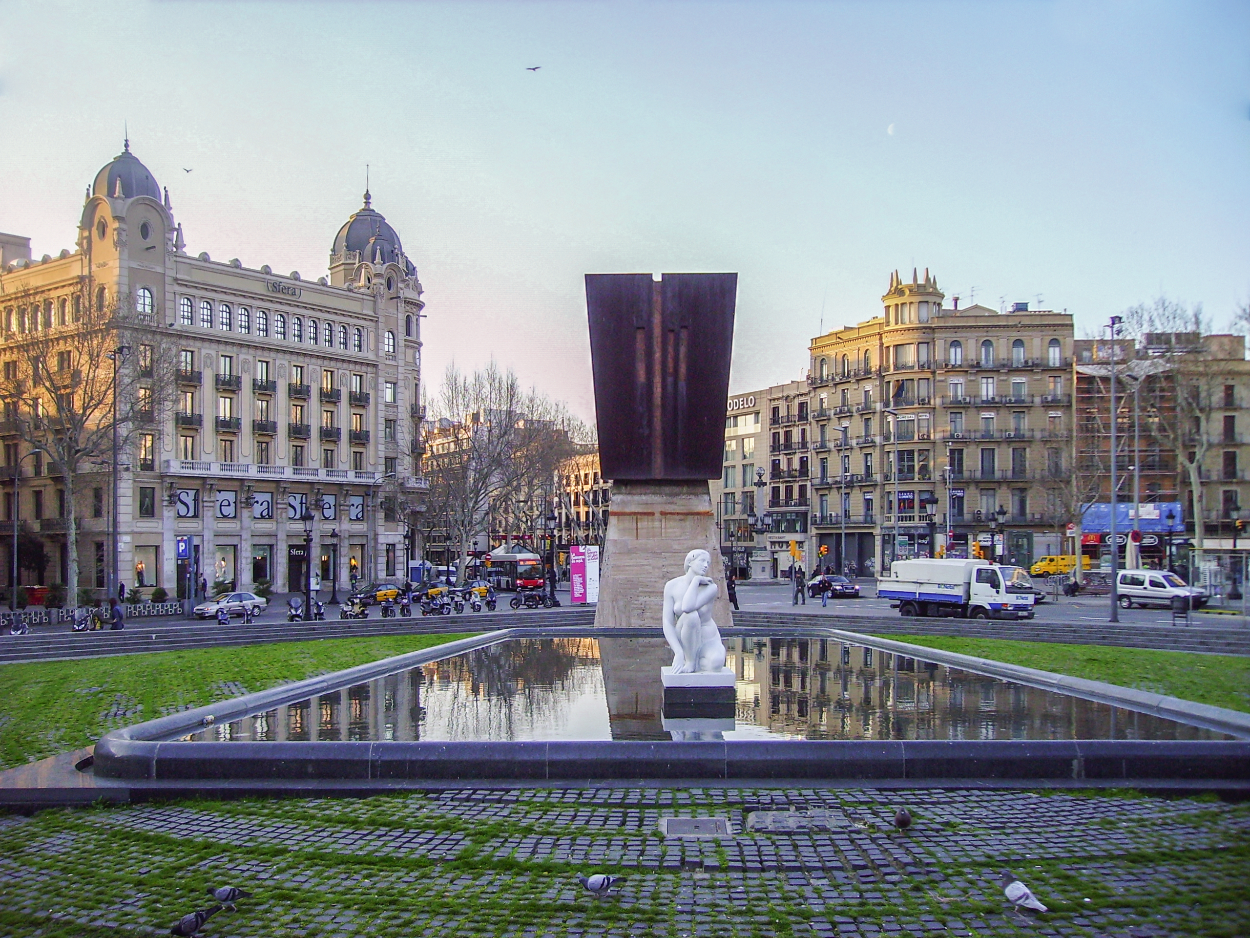 Monument to Francesc Macià, President of the Generalitat de Catalunya, on Plaça de Catalunya (Barcelona).